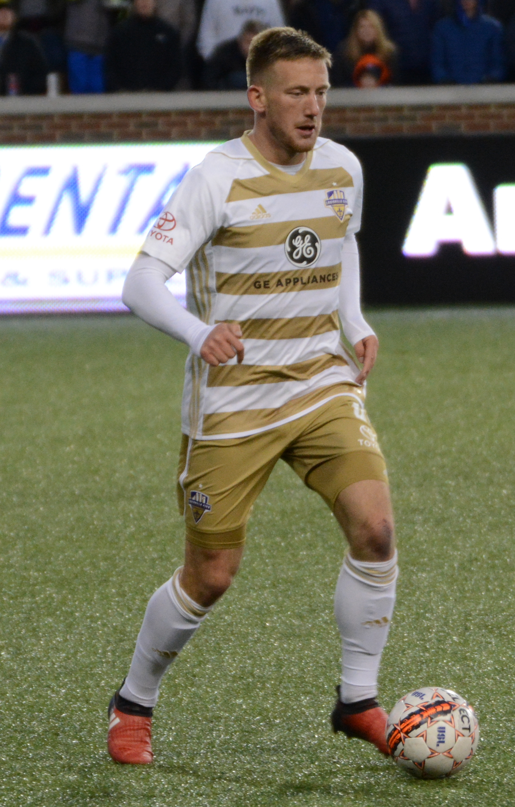 Taken during FC Cincinnati's home opener against Louisville City FC at Nippert Stadium in Cincinnati, USA on April 7, 2018.